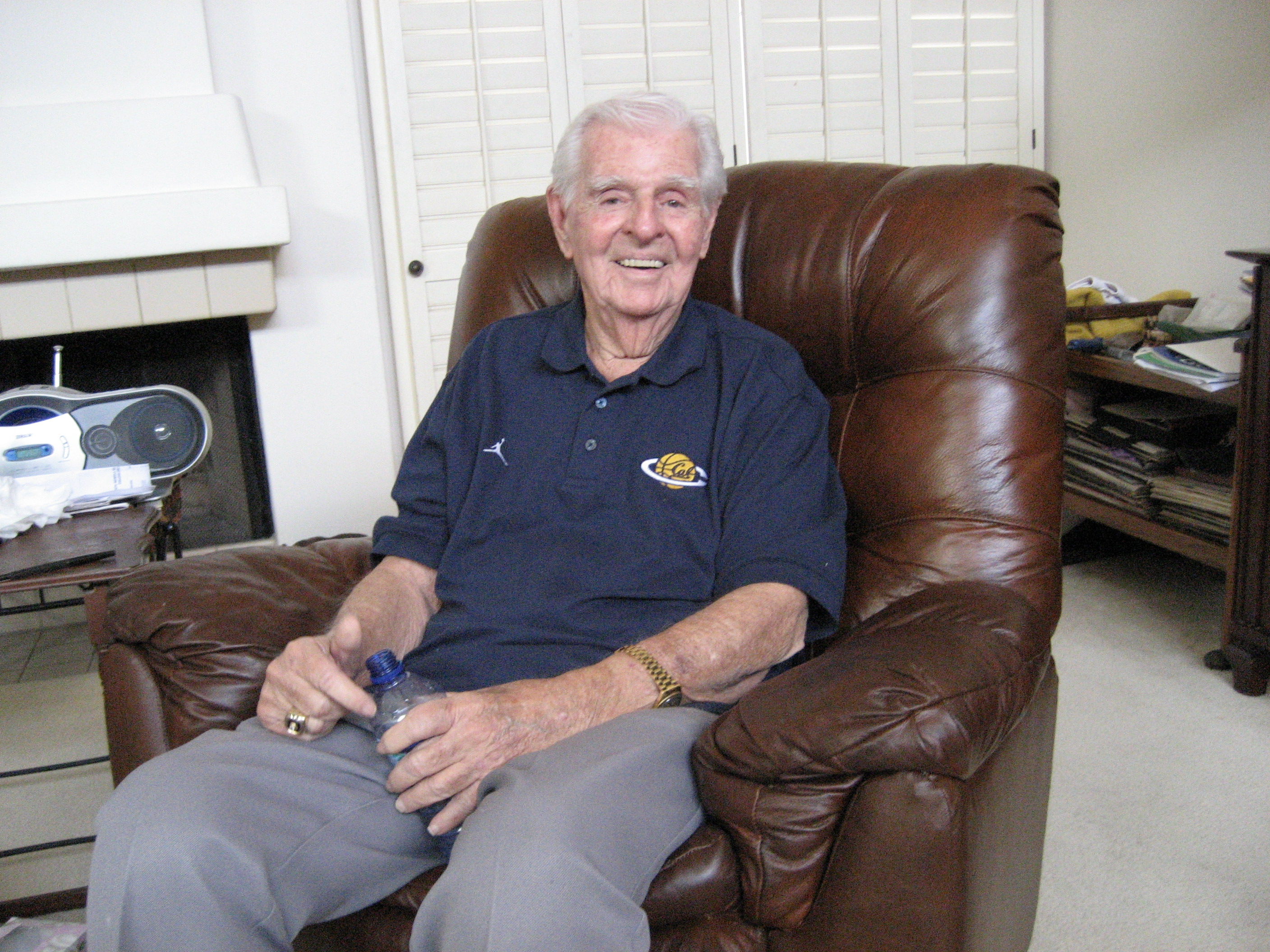 Coach Pete Newell at his Rancho Santa Fe, California home taking a break from a green screen interview which would appear at the College Basketball Hall of Fame in Kansas City, Missouri. Photograph by Patty Mooney, Crystal Pyramid Productions, San Diego, California.